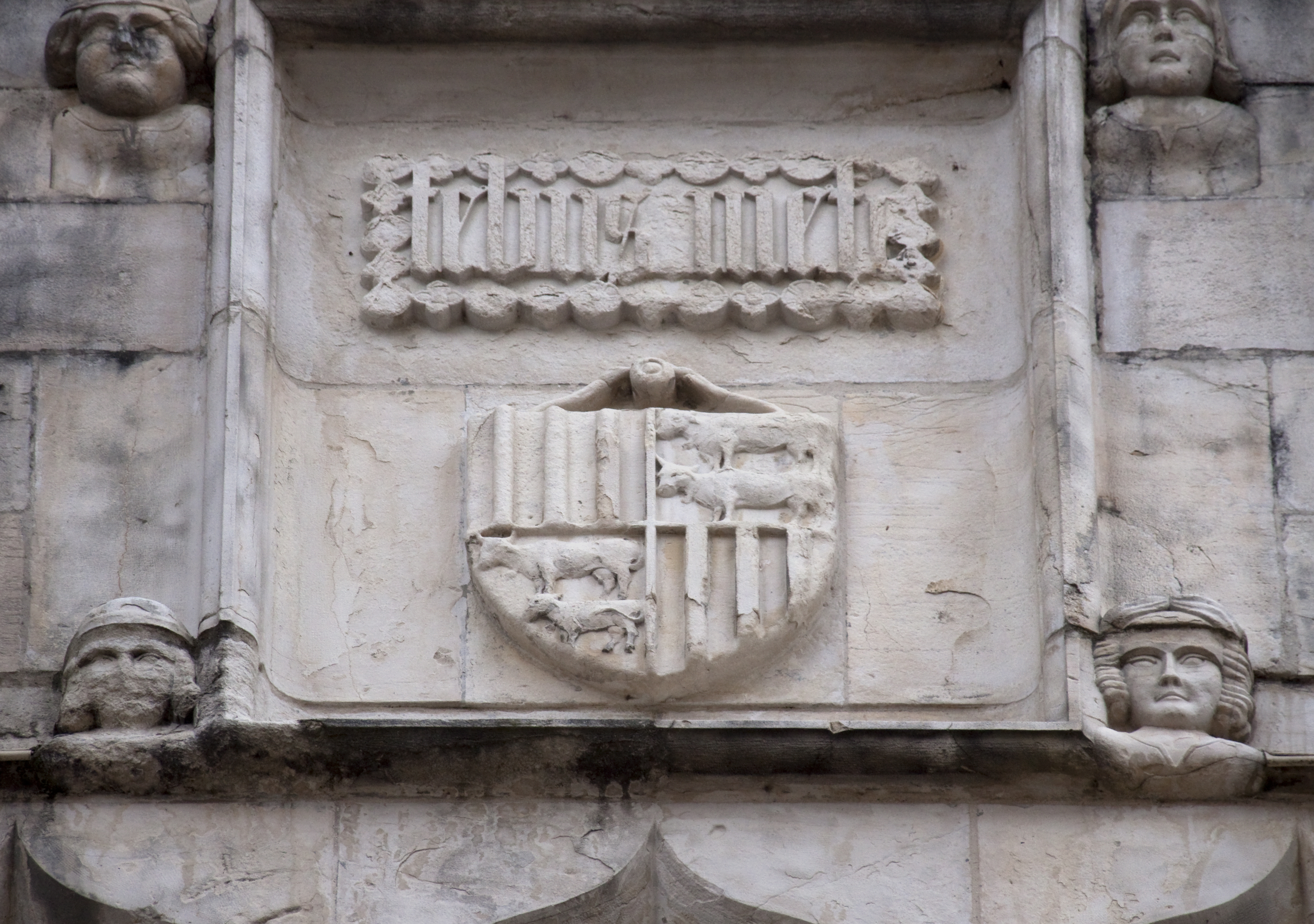 Coats of arms at Pau Castle